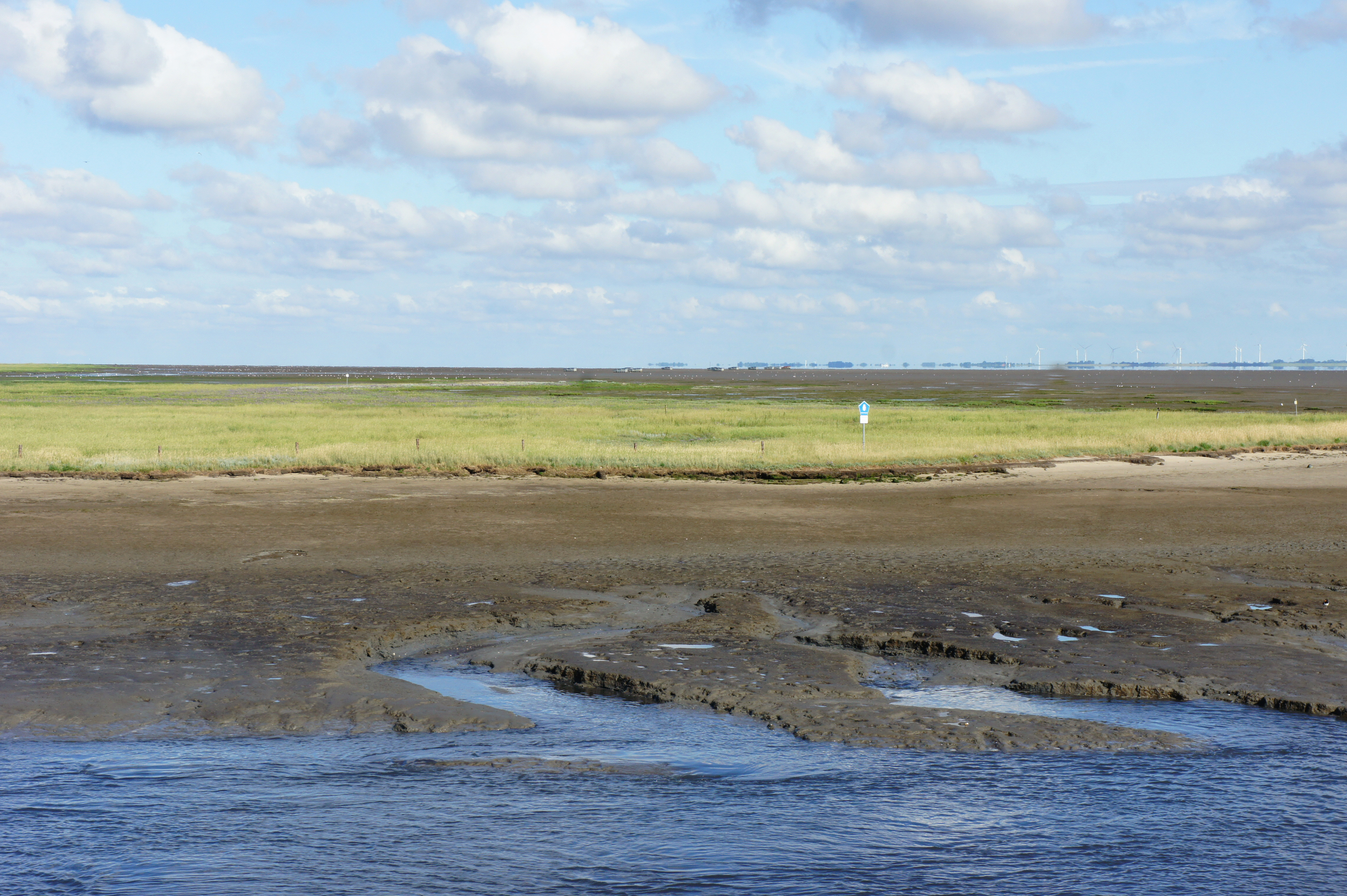 National Park Lower Saxony Wattenmeer south of Spiekeroog. In the background the mainland is recognizable.